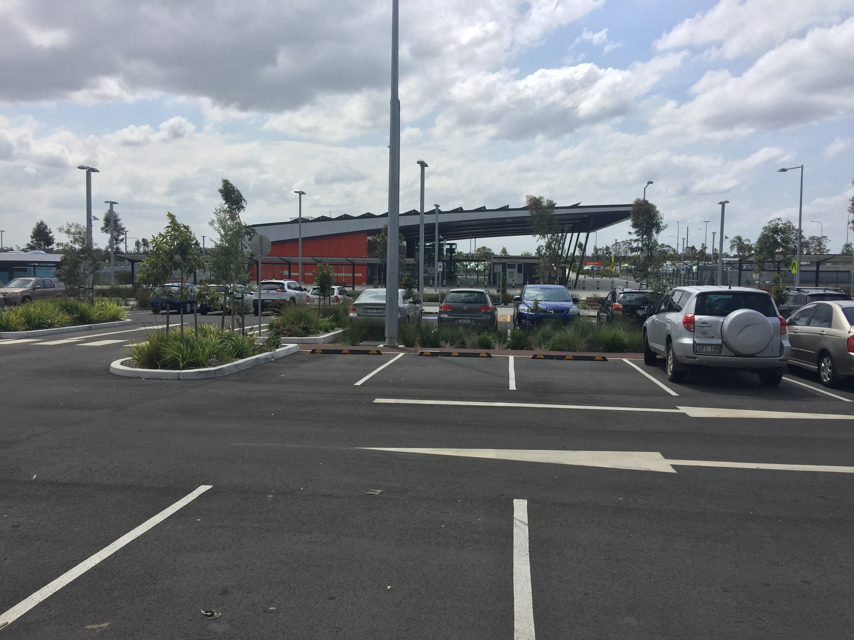 Leppington Station from Carpark